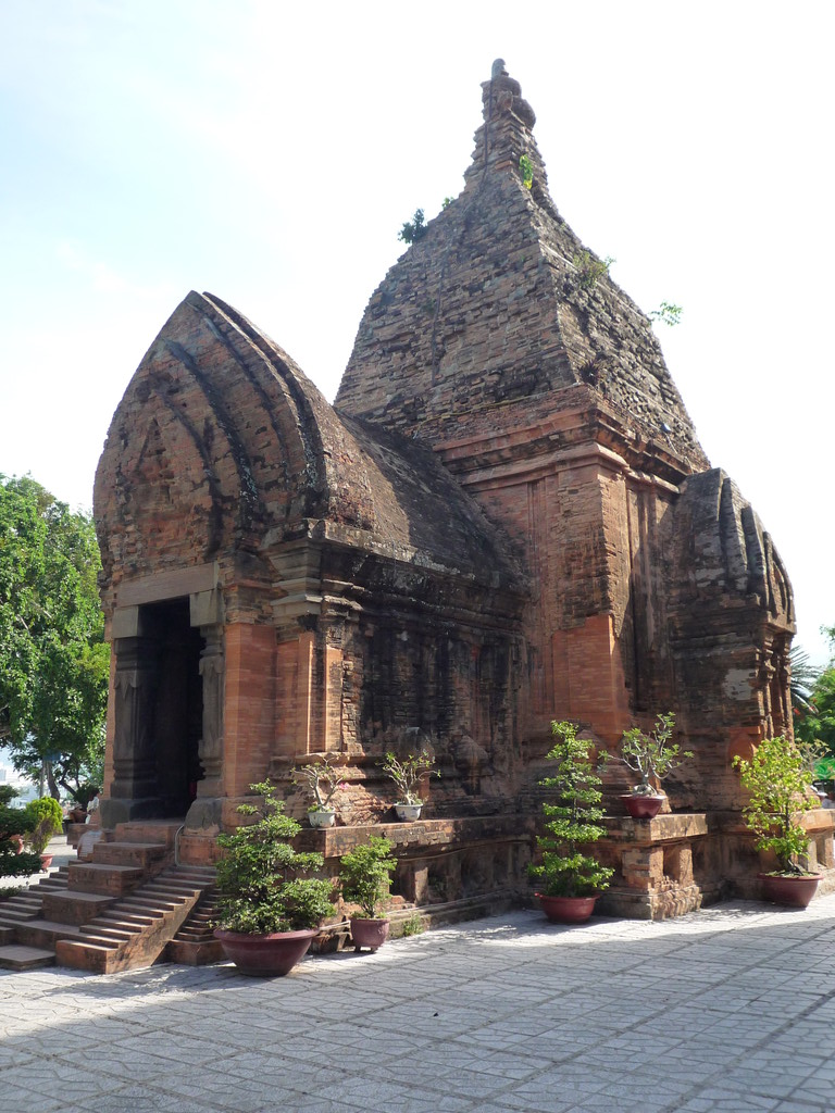 Ancient Hindu temple in Nha Trang, Vietnam. This is one of the surviving Eastern-most Hindu temples known in contiguous mainland Asia. The design is quite different than the numerous Hindu temples of Cambodia and Laos, but share some design features of Hindu temples of Indonesian archipelago. This suggests Hinduism may have arrived here through Java and Bali. Nha Trang is a coastal city and capital of Khánh Hòa Province, on the South Central Coast of Vietnam. It is bounded on the north by Ninh Hoà district, on the east by the South China Sea, on the south by Cam Ranh town and on the west by Diên Khánh District.